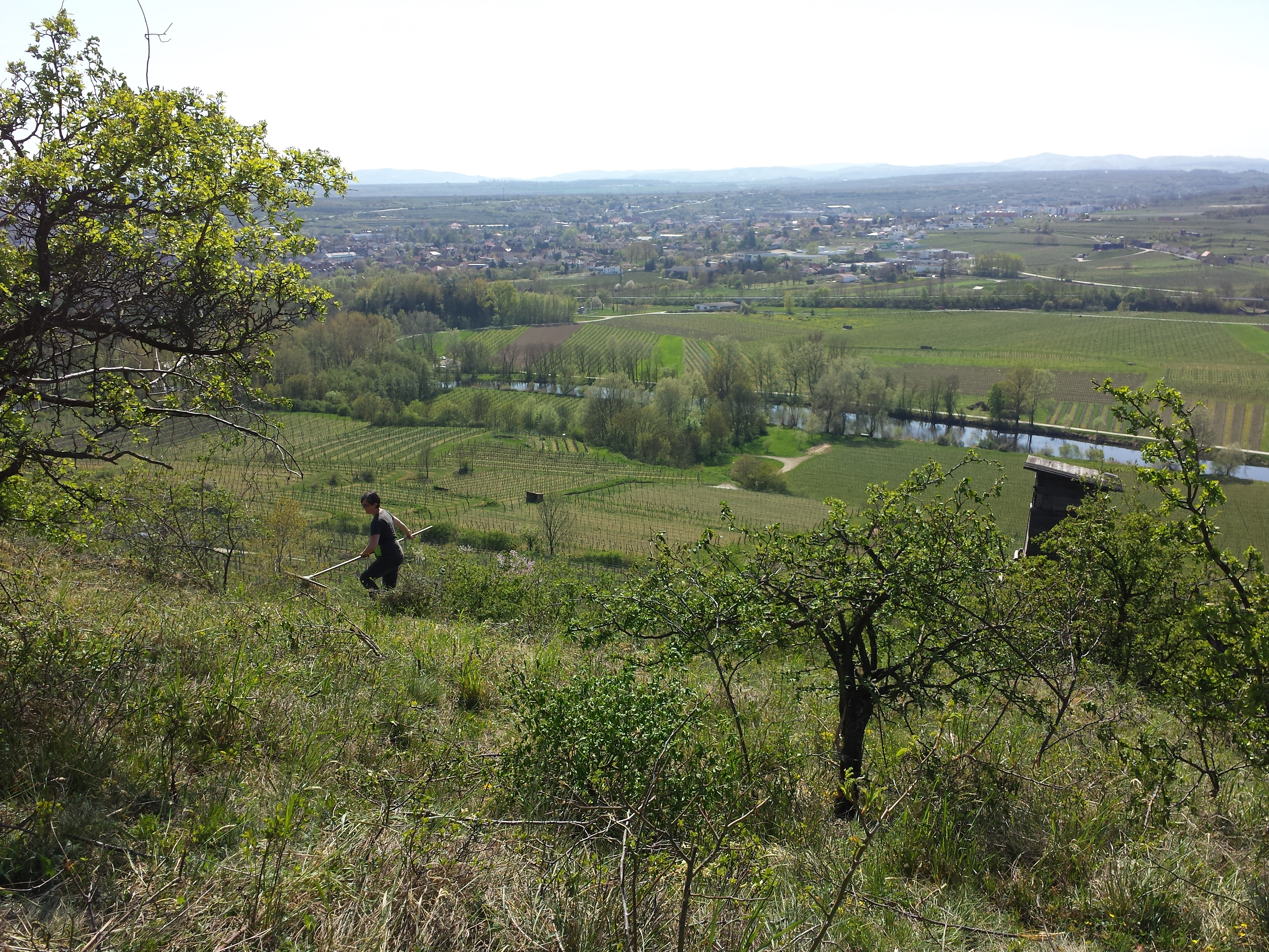 Heiligenstein near Zöbing, district Krems-Land, Lower Austria Preservation effort by Naturschutzbund NÖ